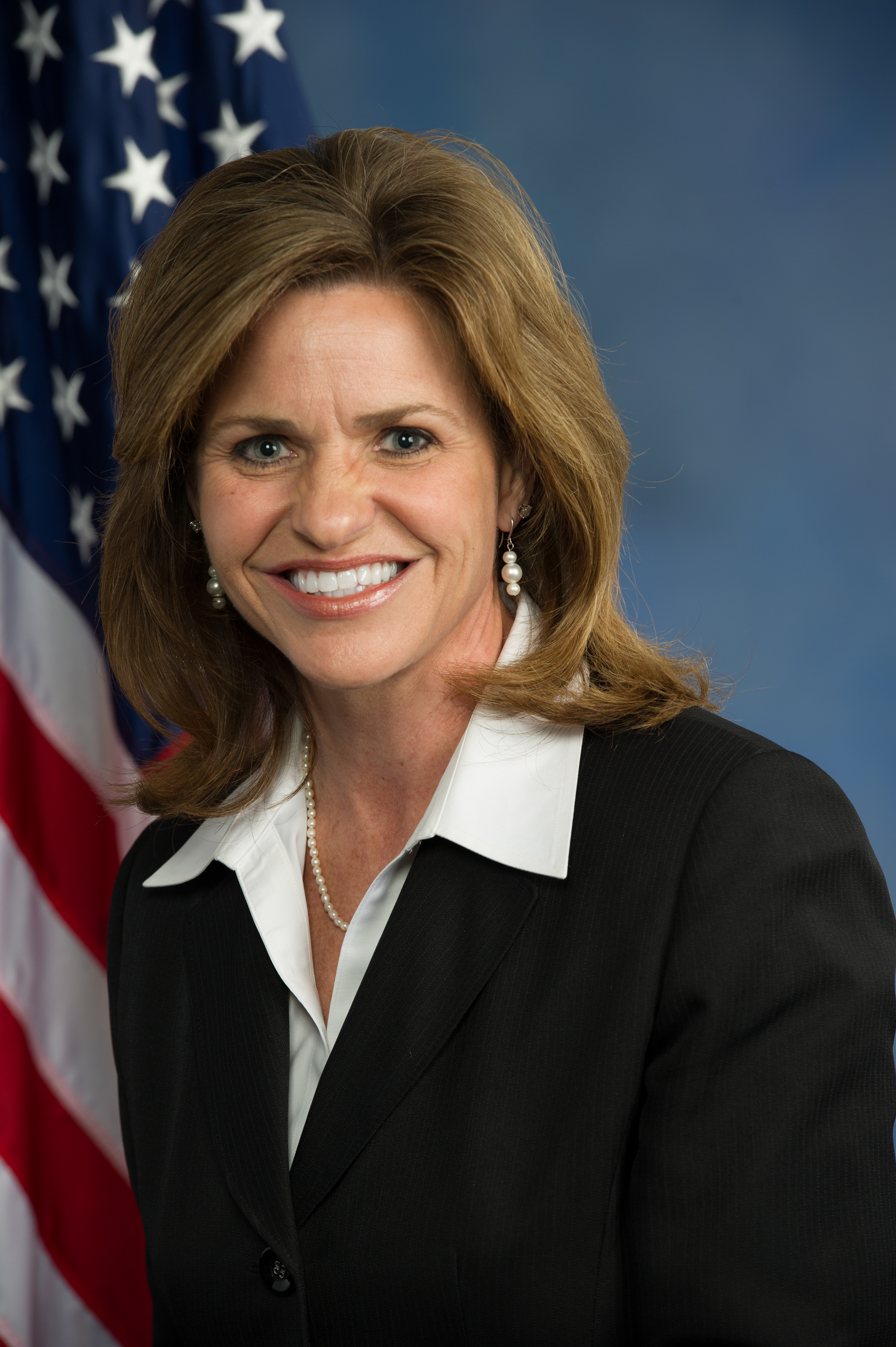 Official portrait of Congresswoman Lynn Jenkins (R-KS).